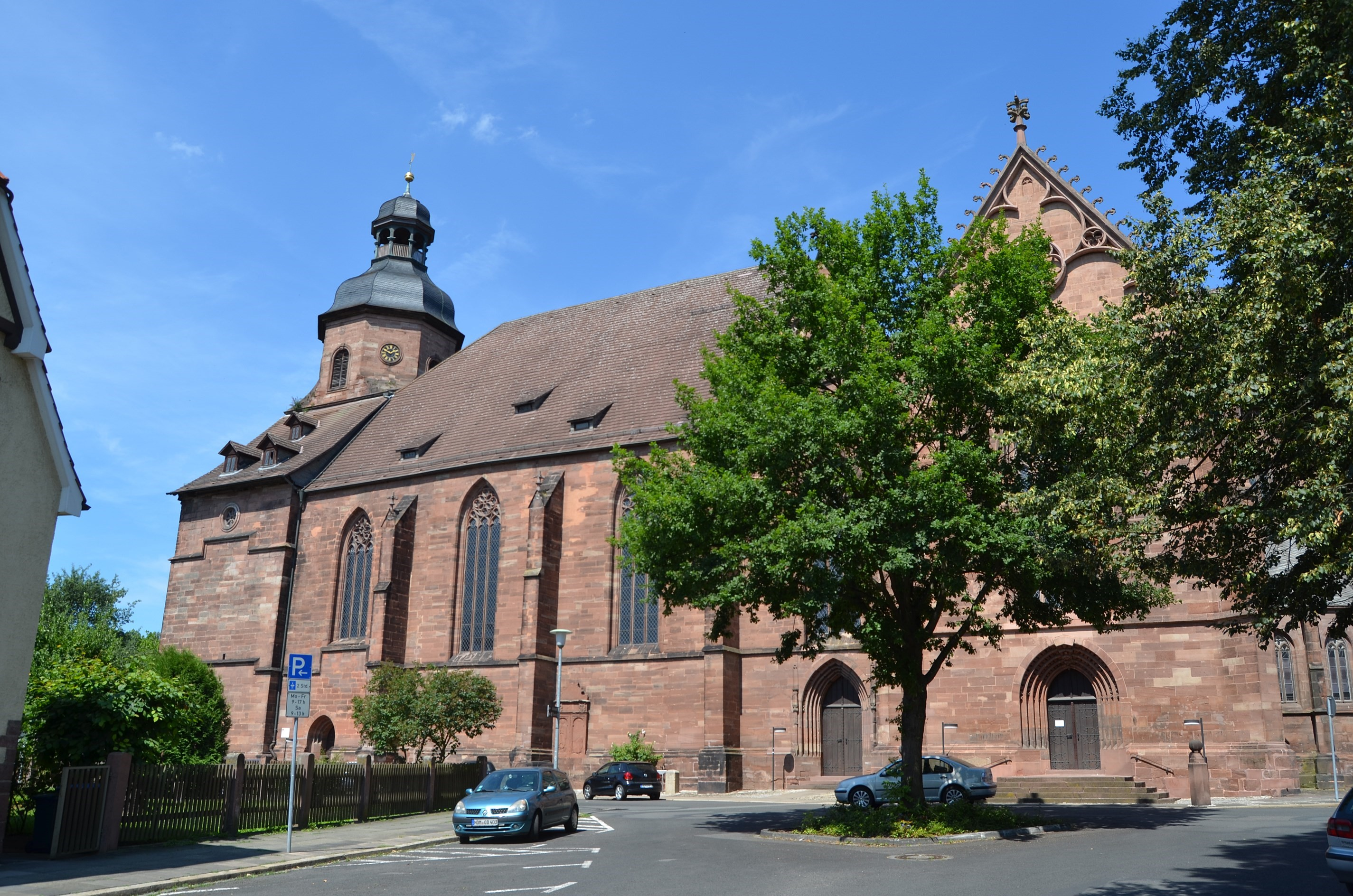 Einbeck (Lower Saxony, Germany) – Lutheran Saint Alexander Church – south side This is a photograph of an architectural monument.It is on the list of cultural monuments of Einbeck This photograph was taken with a Nikon D7000